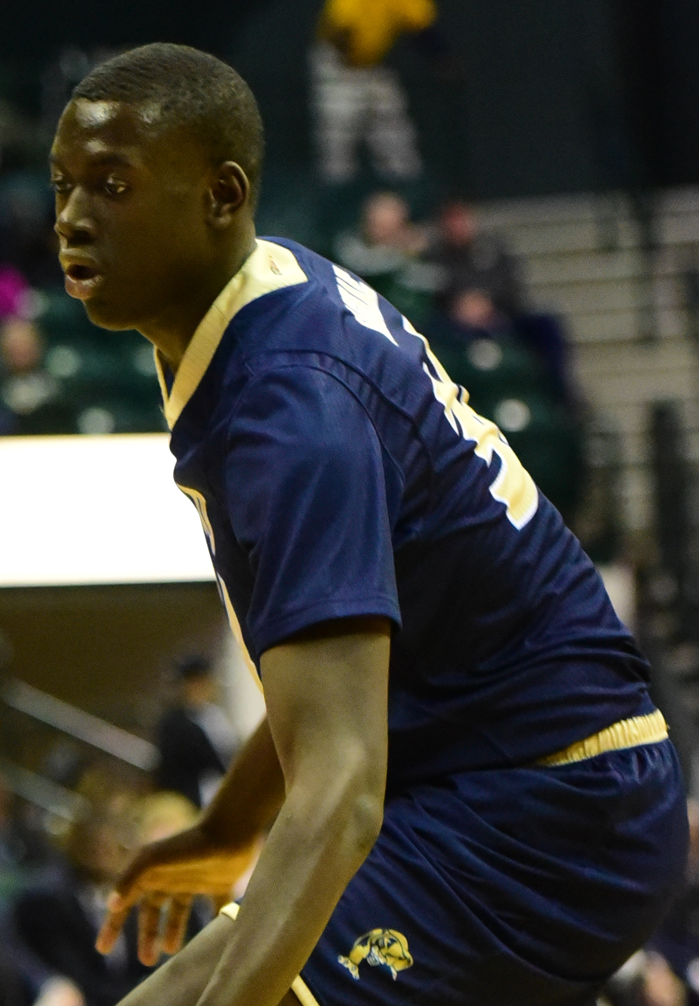 3 Jon Davis